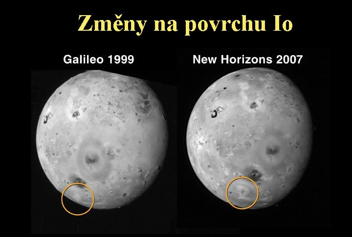 source Tập tin:Iosurface.jpg